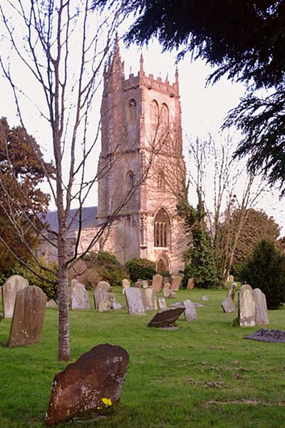 West tower of St Mary's parish church, Bitton, Gloucestershire, seen from the northwest